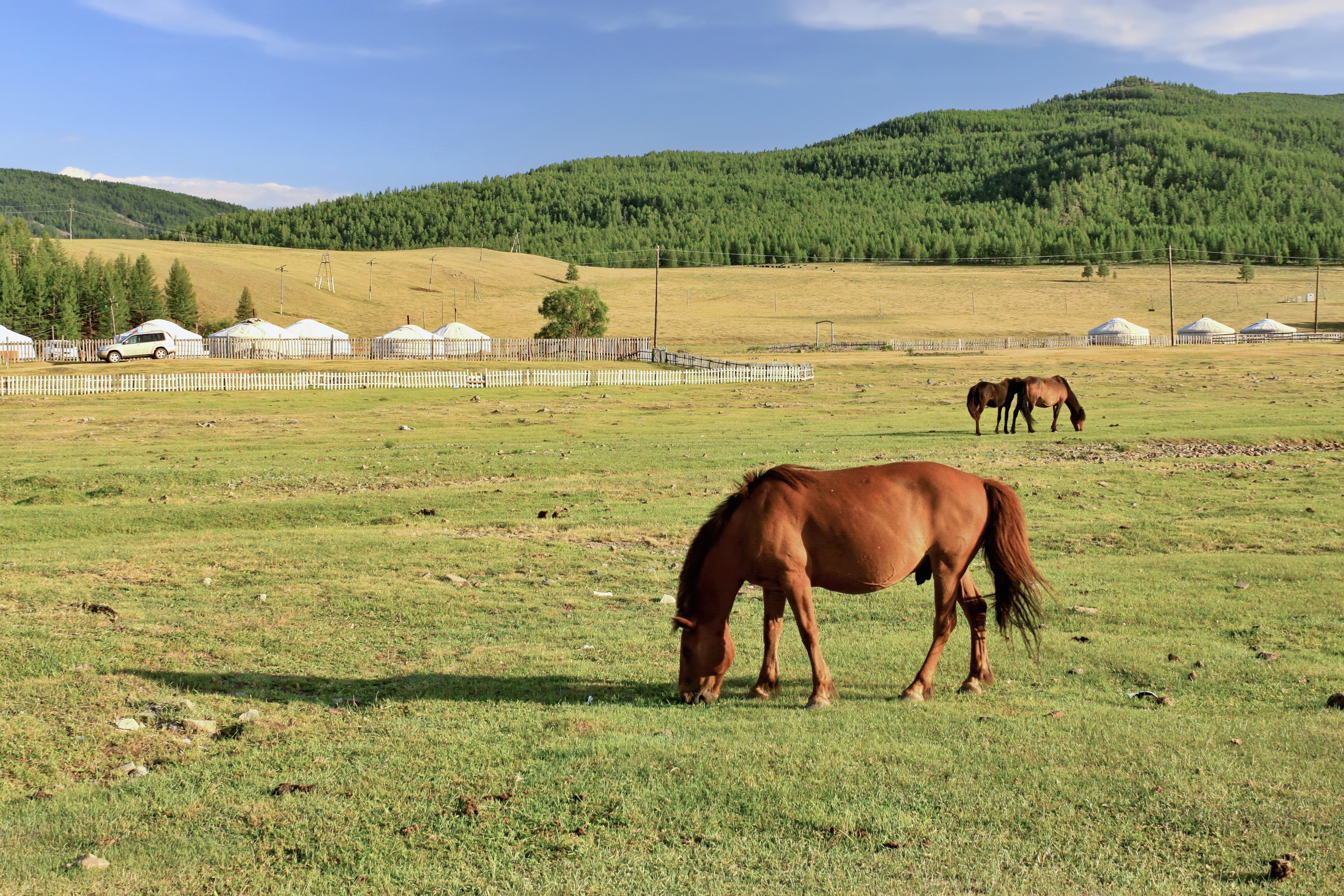 Mongolian horses. Gorkhi-Terelj National Park. Mongolia.